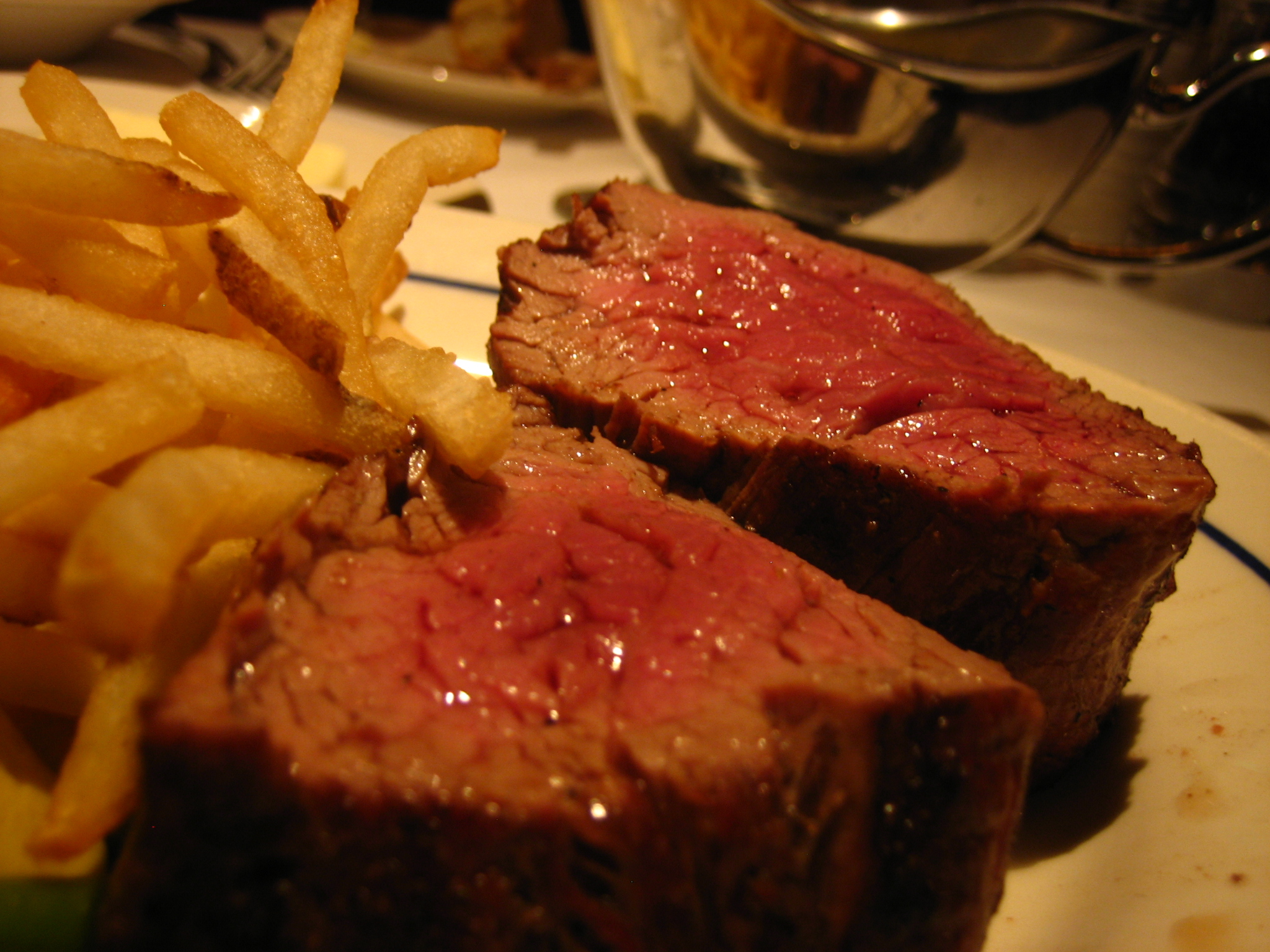 Chateaubriand